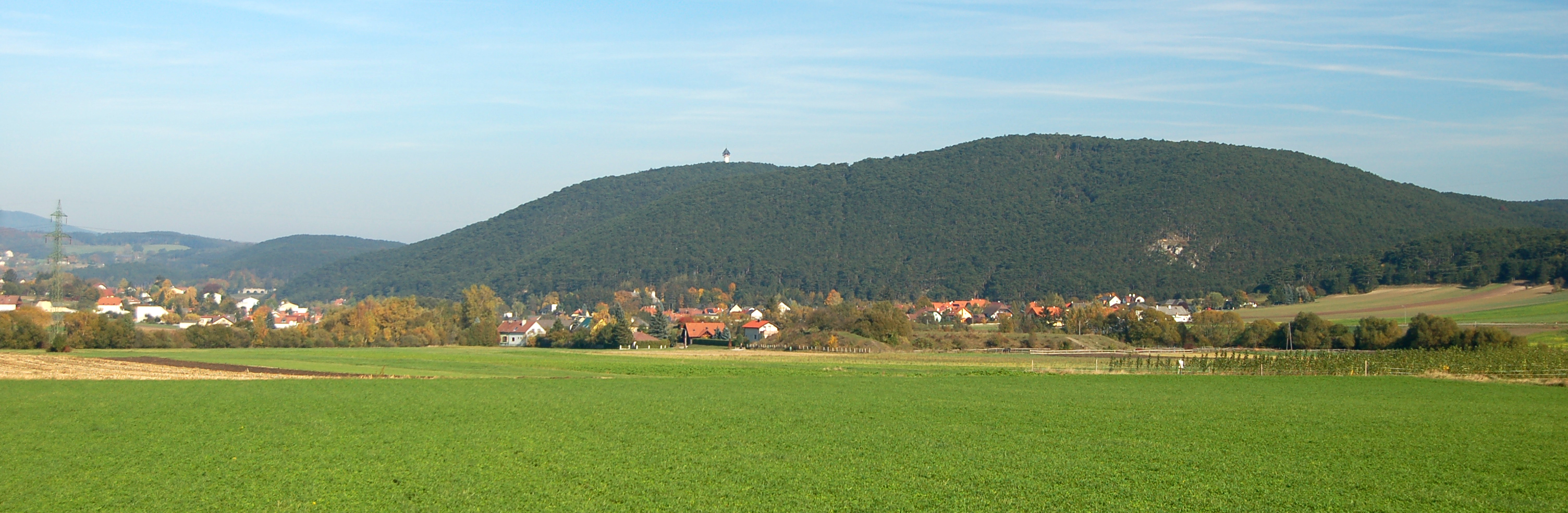 The hill Guglzipf (472m) near Berndorf, Lower Austria, as seen from Grillenberg, Hernstein. On the summit the observation tower Jubiläumswarte.